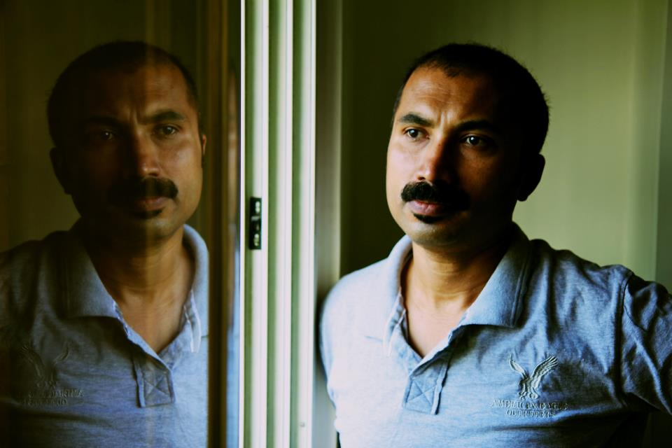 Arun Prasad, a bangalore based historian and comics collector.